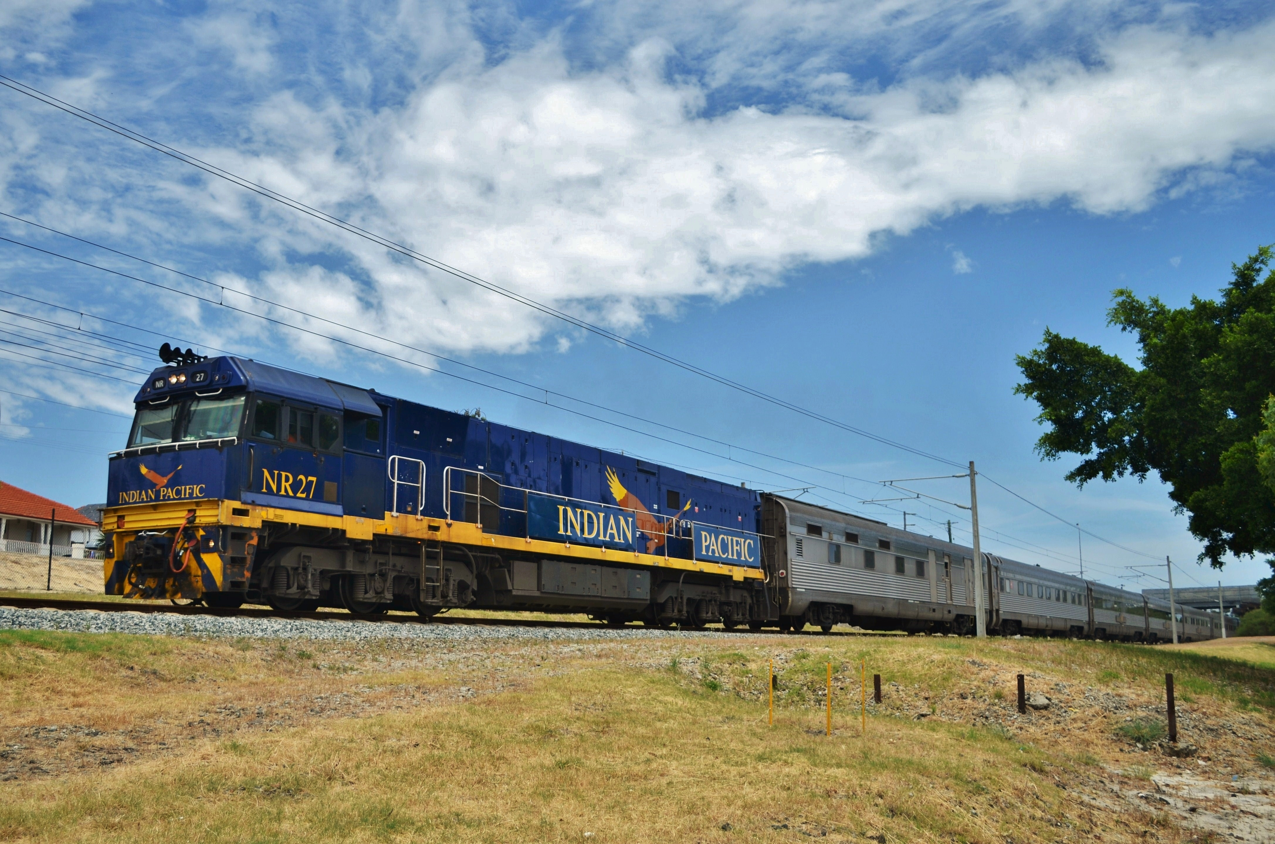 NR27 has just crested the dual gauge Mt Lawley incline with the east bound Indian Pacific, shortly after its 11:55 am departure from East Perth Terminal. The locomotive is one of four NR class units specially painted in the Indian Pacific livery.